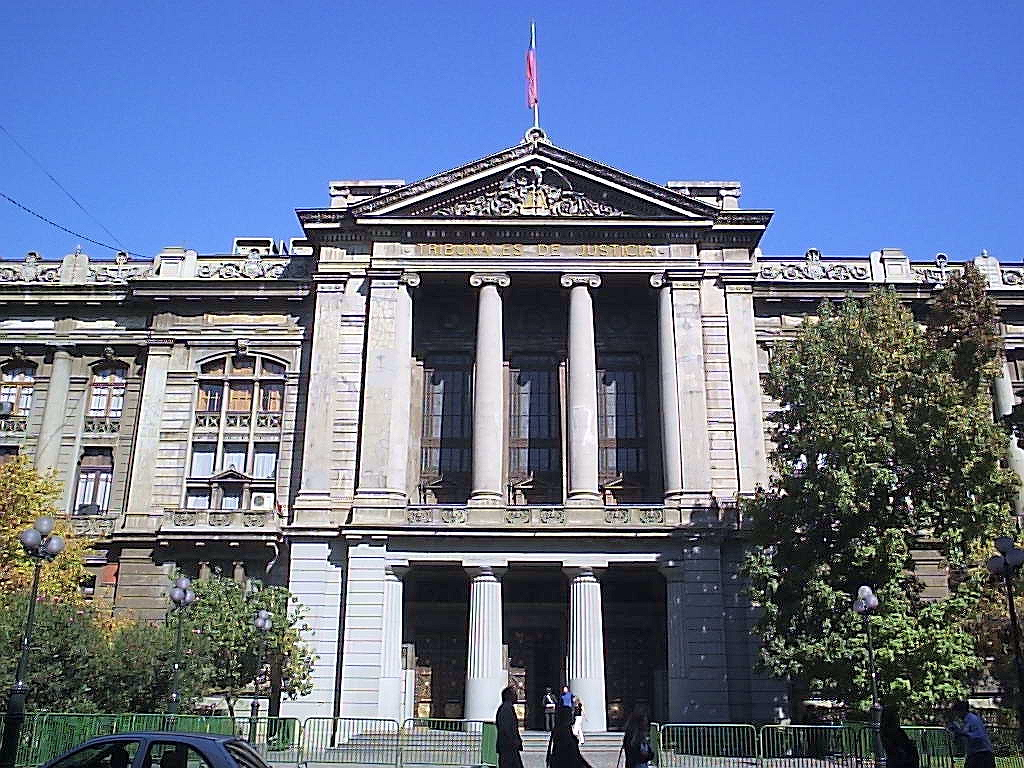 Palace of Justice of Santiago (Chile). Seat of the Supreme Court of Chile and the Court of Appeals of Santiago